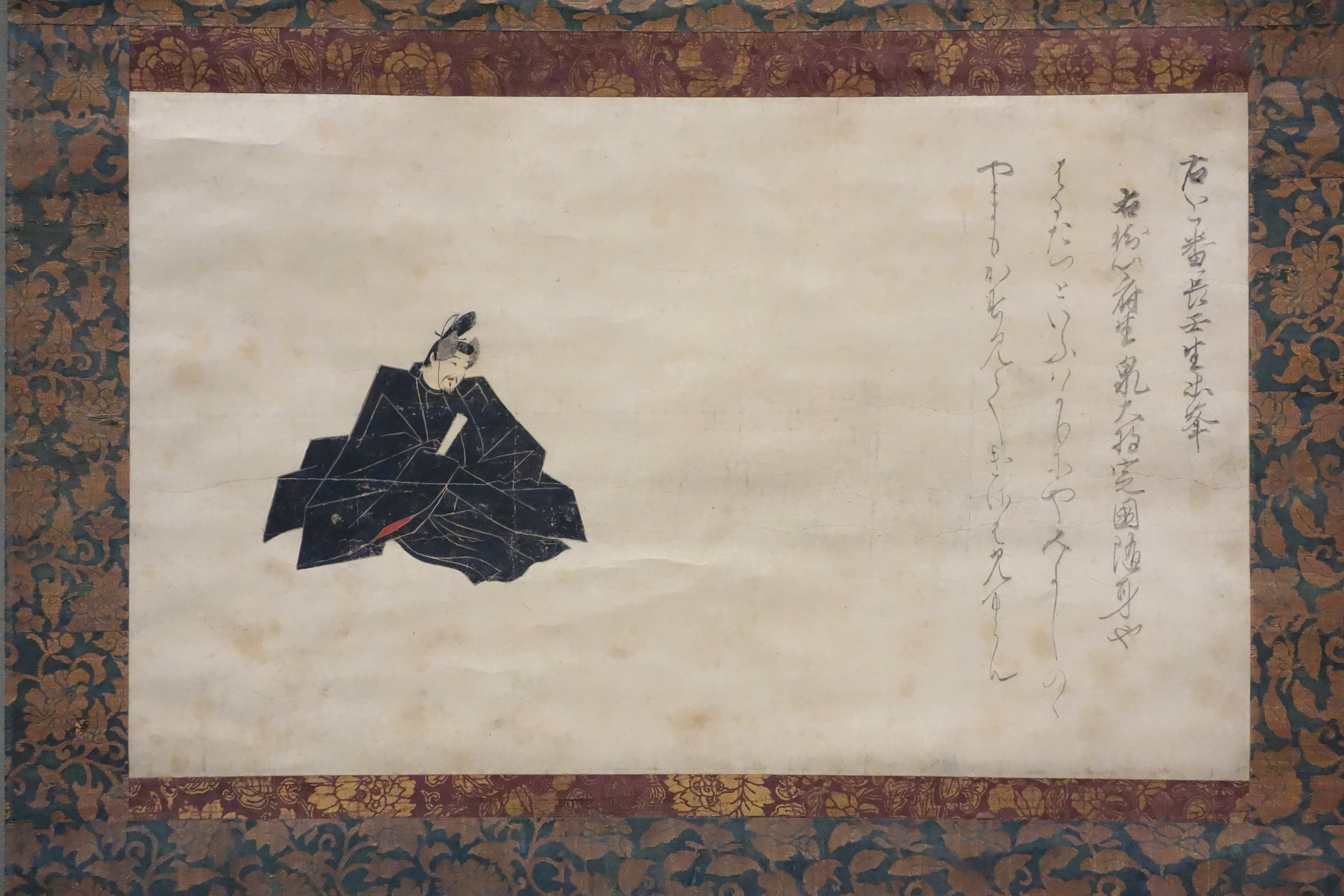 Exhibit in the Tokyo National Museum, Tokyo, Japan. This artwork is old enough so that it is in the public domain.